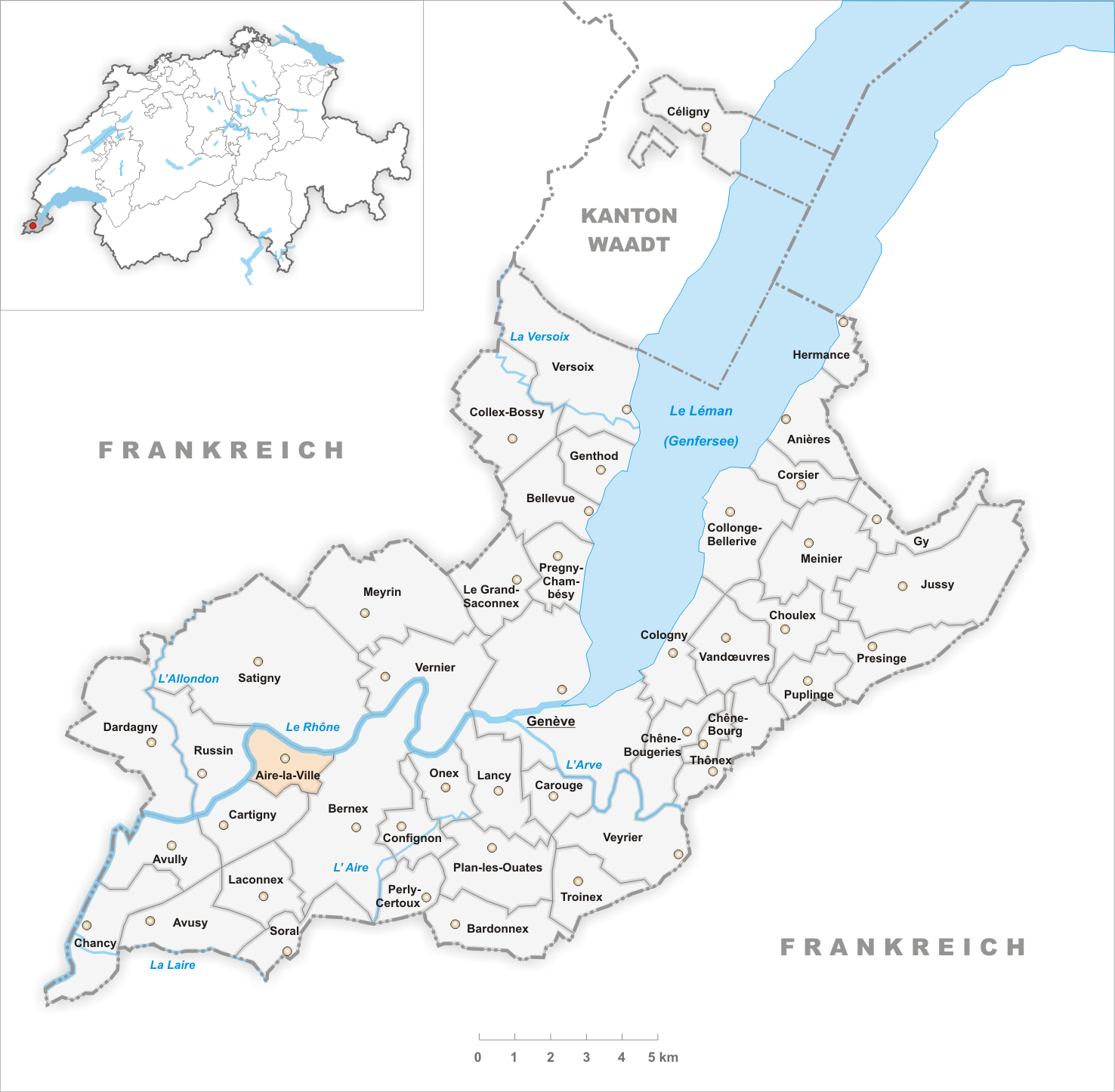 Municipality Aire-la-Ville